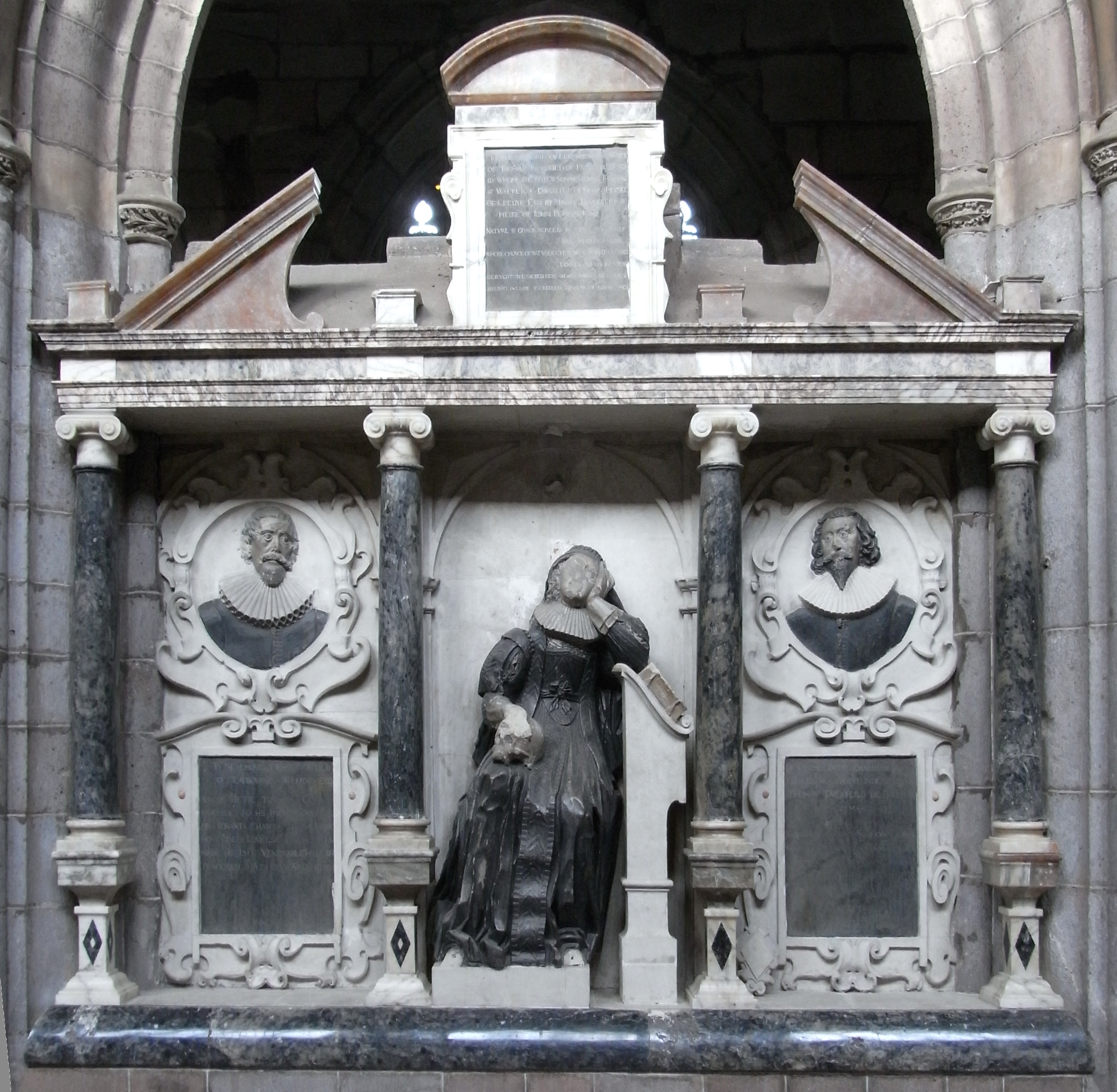 Monument to Tuckfield family of Little Fulford in the parish of Shobrooke, near Crediton, Devon. 1st half of 17th century, erected by Thomas Tuckfield (1580/90-1642) (bust on right) in memory of his wife Elizabeth Reynell (1593-1630) (central figure) and of his father John Tuckfield (1555-1630) of Tedburn St Mary (bust at left), who purchased Little Fulford. North side of chancel, Holy Cross Church, Crediton.